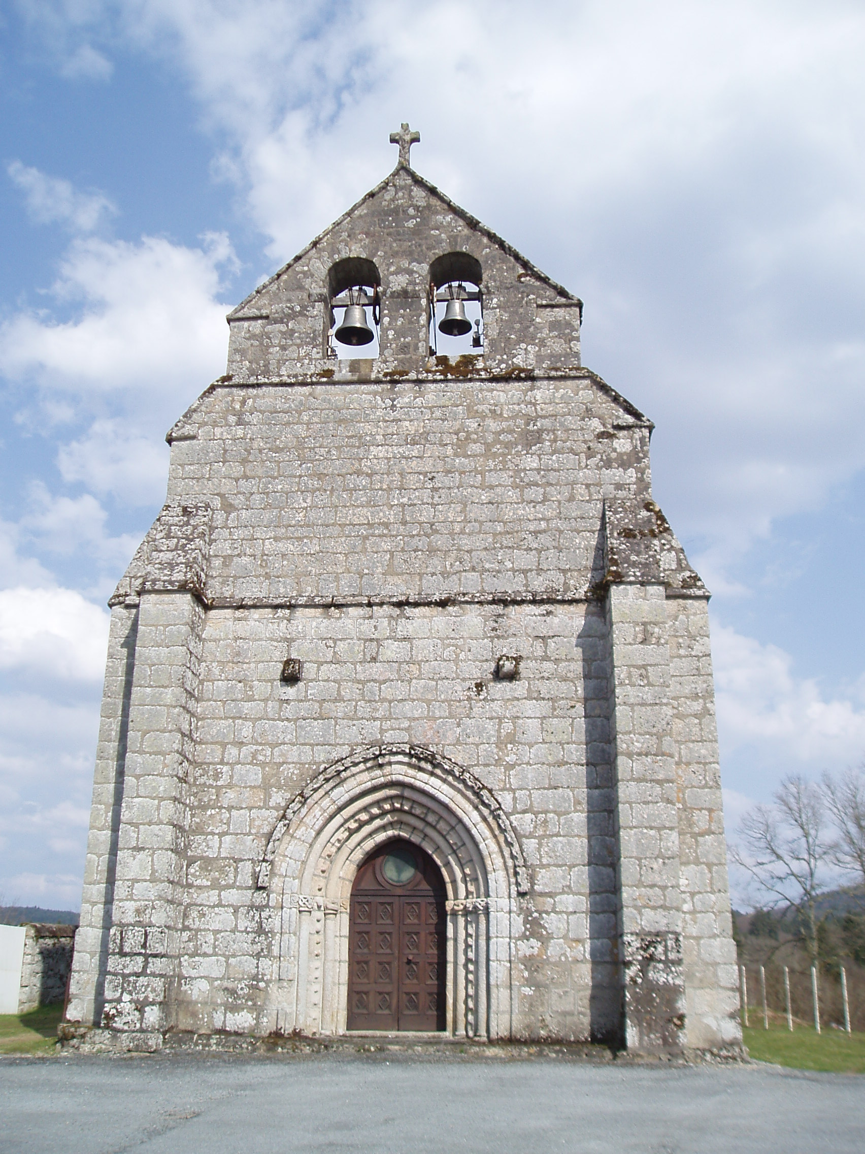 Eglise